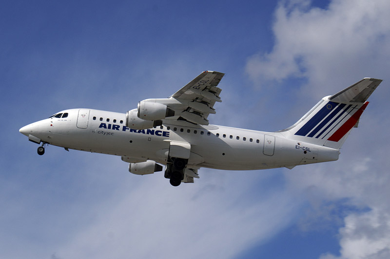 Cityjet BAe 146-200 EI-CSL operating for Air France